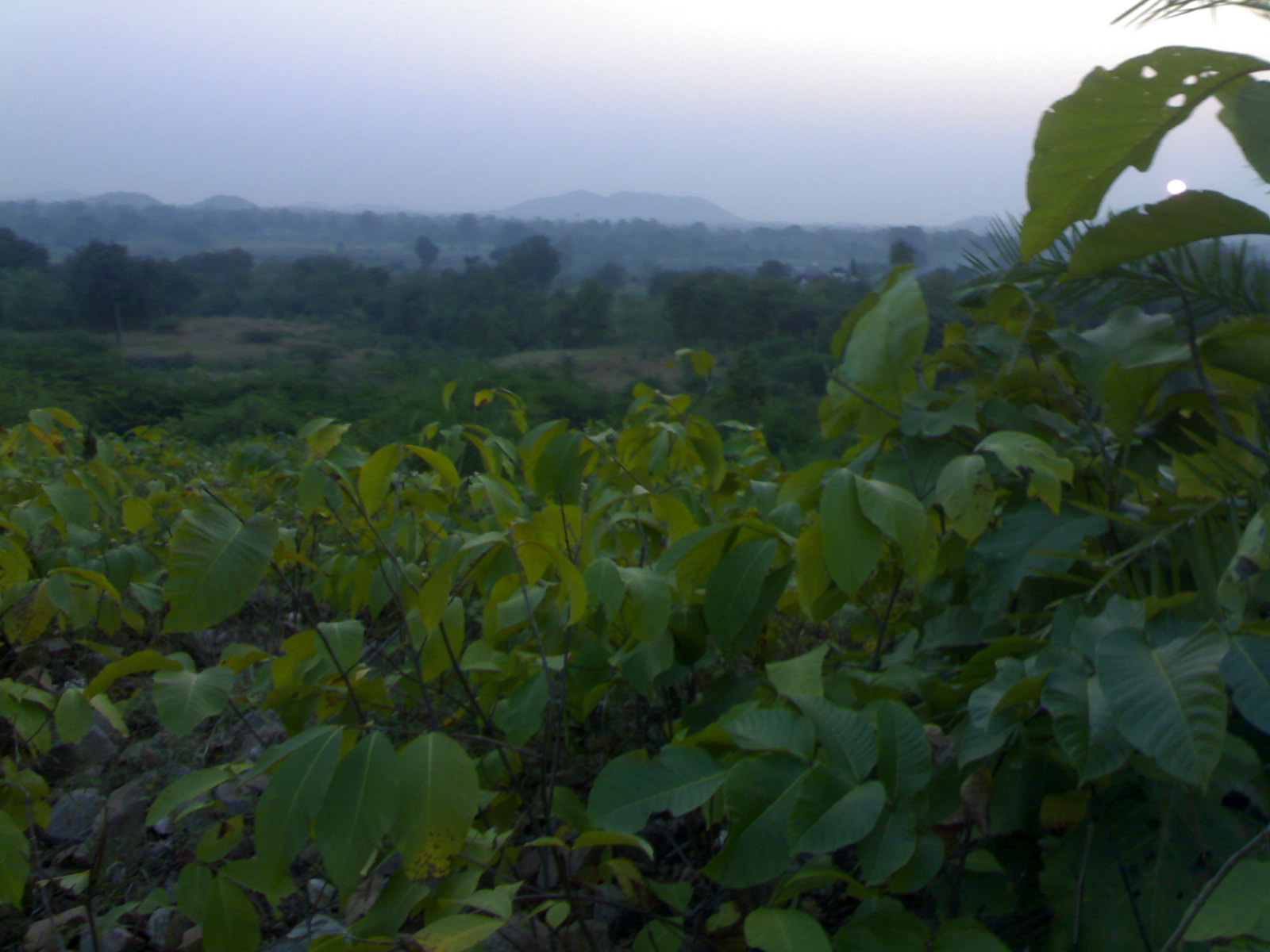 A SAPLING OF SAG TEAK , THAT ONCE POPULATED THESE HILLS, STANDS VULNERABLY IN THE SETTING SUN AT DEVGADH BARIA.